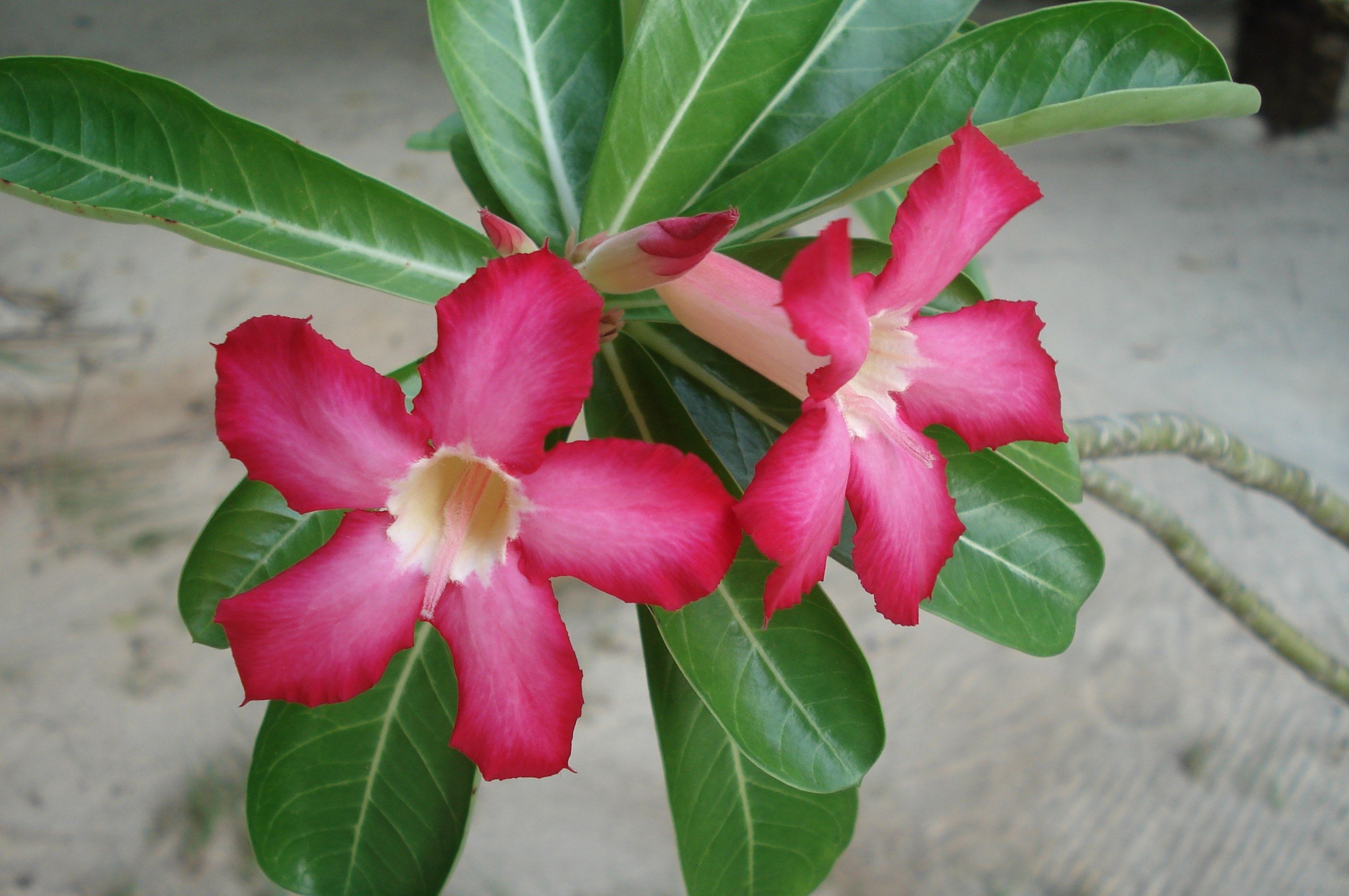 Photographs from Maldives